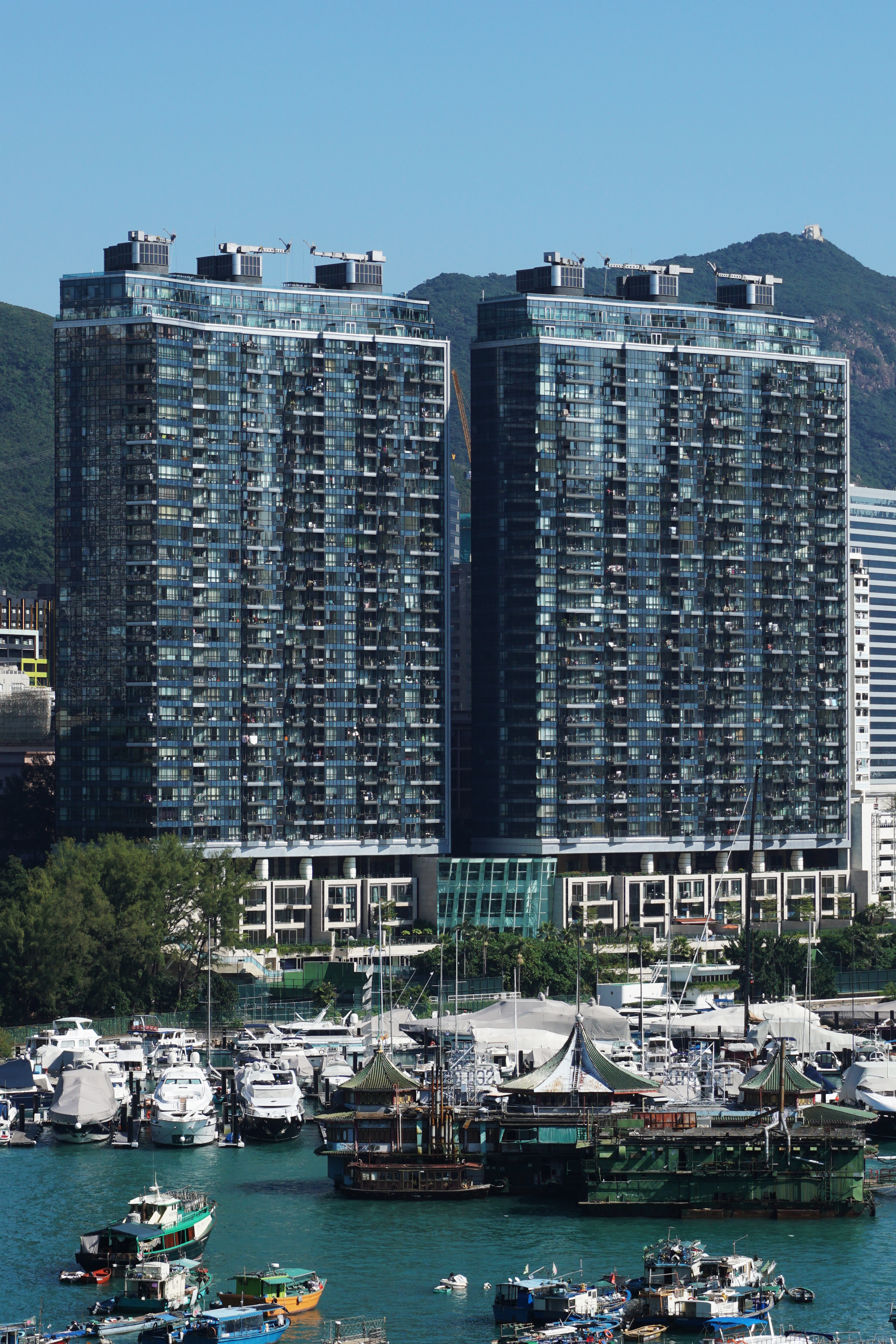 Marinella in Wong Chuk Hang, Hong Kong.